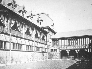 A lantern slide of the courtyard of Belcourt Castle, taken in the period of time before Alva Belmont initiated renovations in 1910.